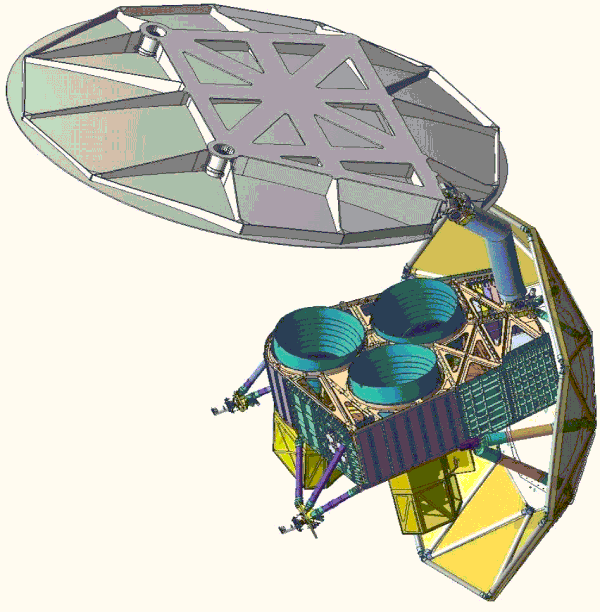 The Aquarius instrument of the Aquarius/SAC-D satellite.